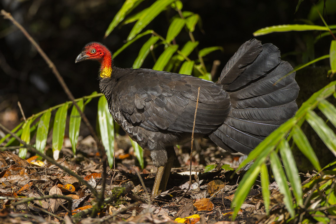 Australian Brush-Turkey - Queensland_S4E8479